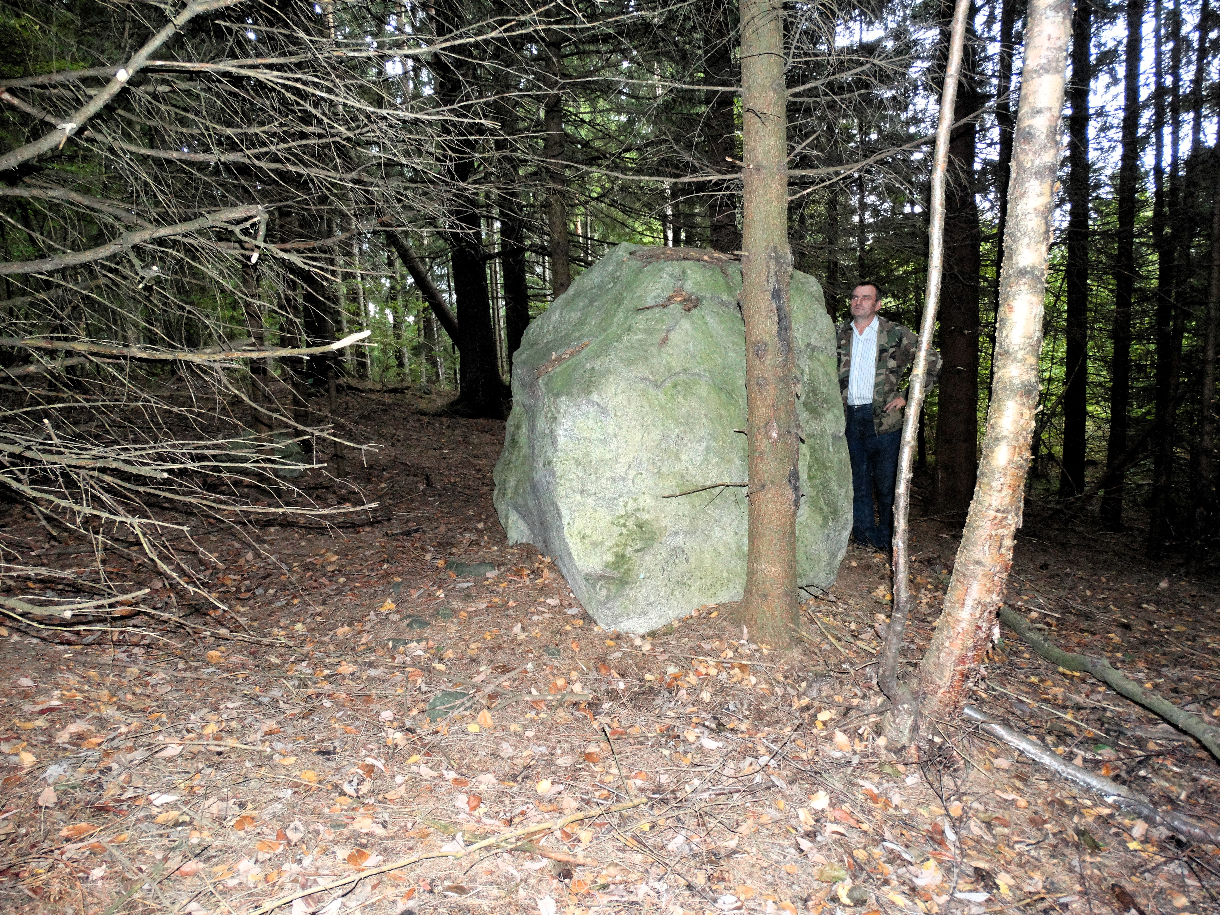 Stone in Varkalės forest, Kaišiadorys District, Lithuania